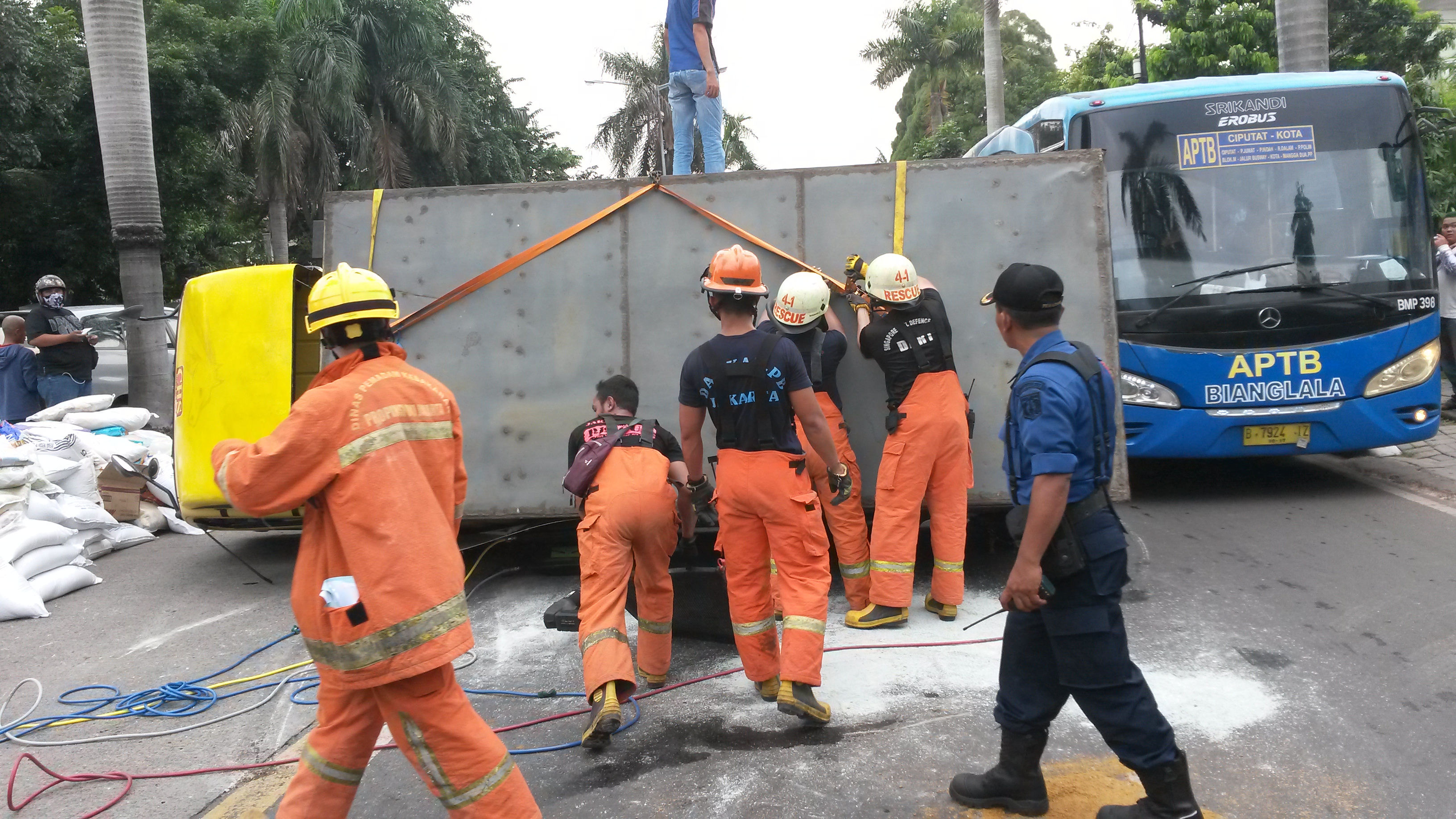 anggota damkar